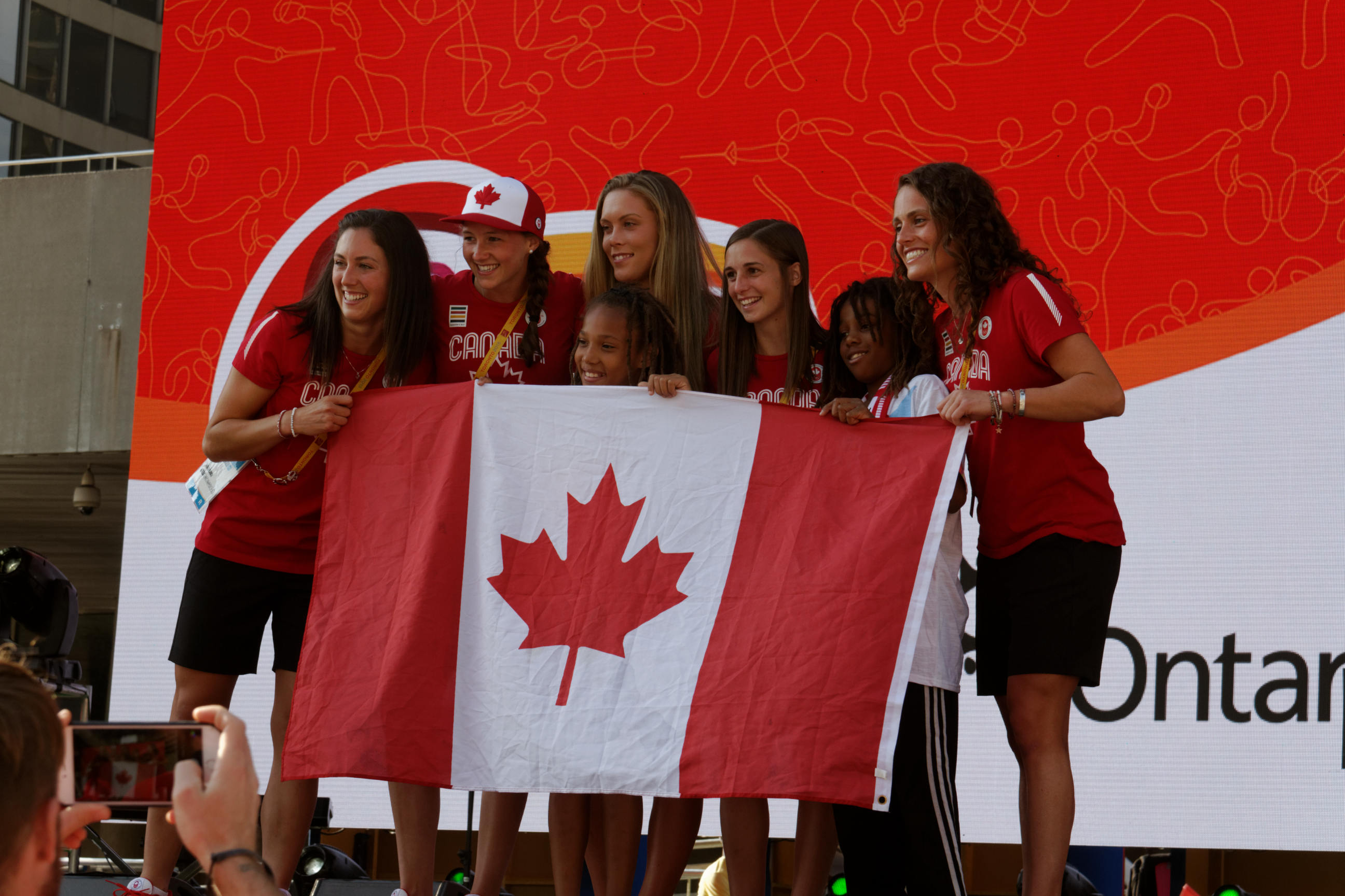 Canadian medal hopefuls